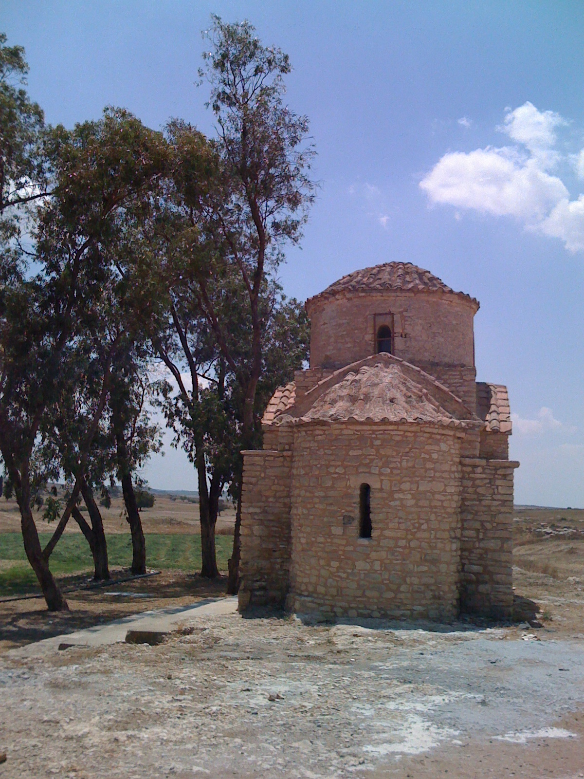 Side view of the church of St. Evfimianos in Lysi, Cyprus. Picture taken in June 2010.